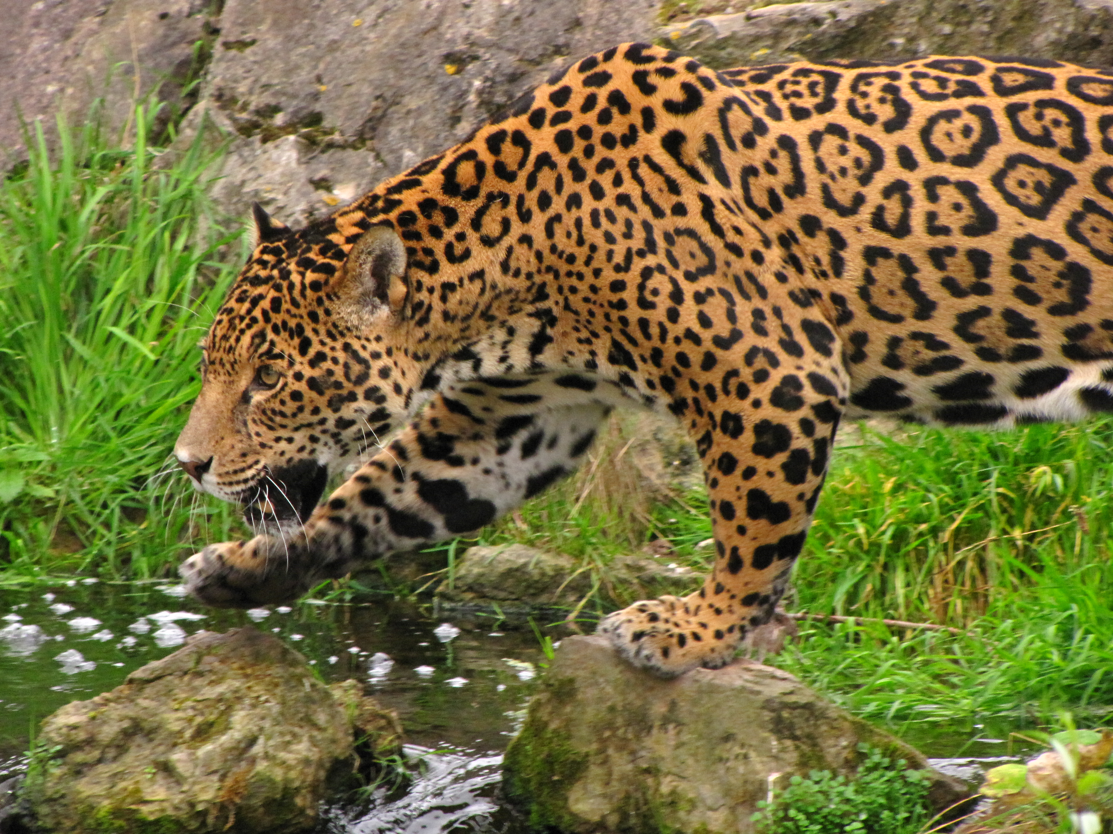 Jaguars Panthera onca at Chester Zoo, Cheshire, England.